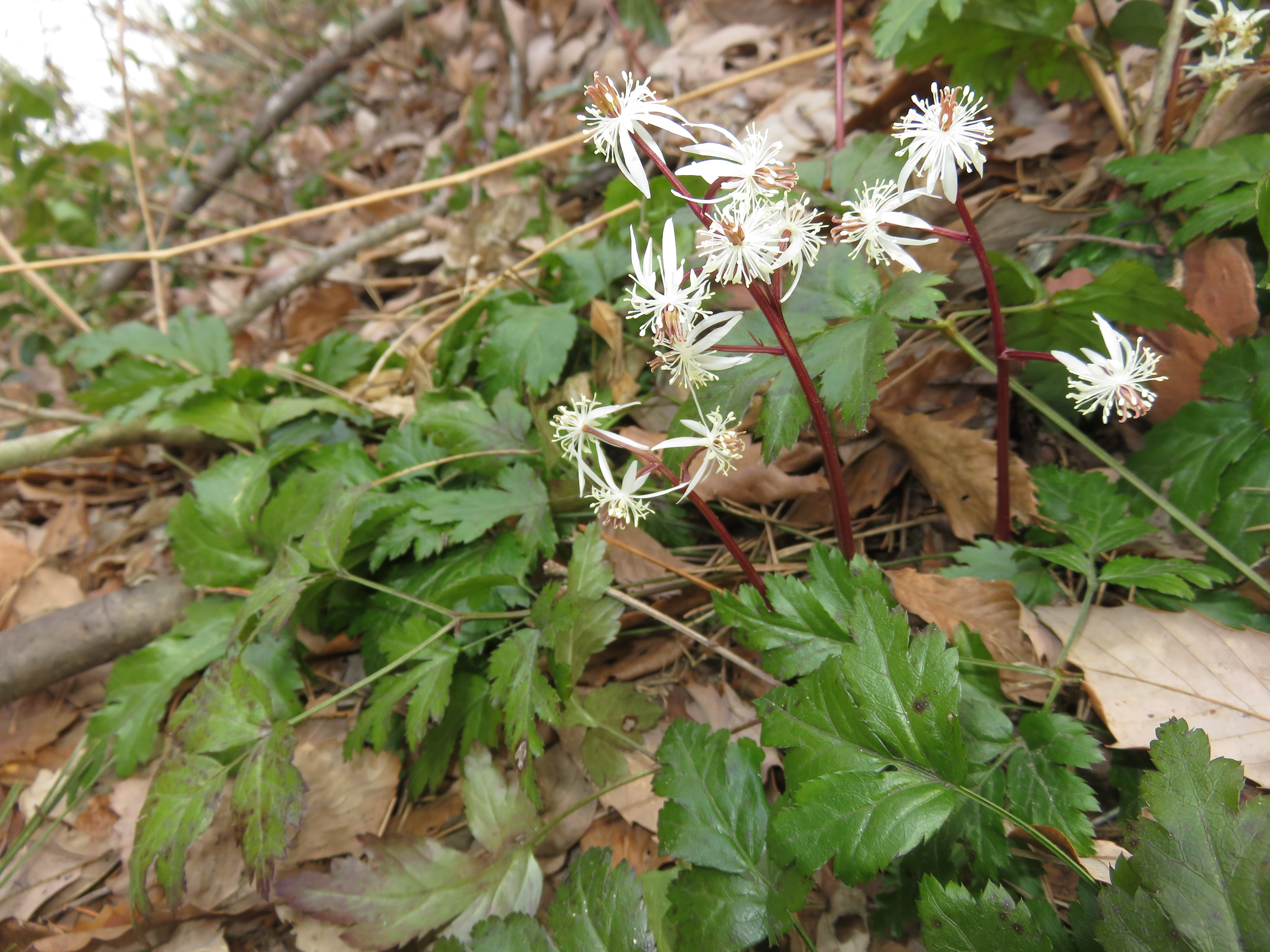 Coptis japonica var. anemonifolia, Aizu area, Fukushima pref., Japan